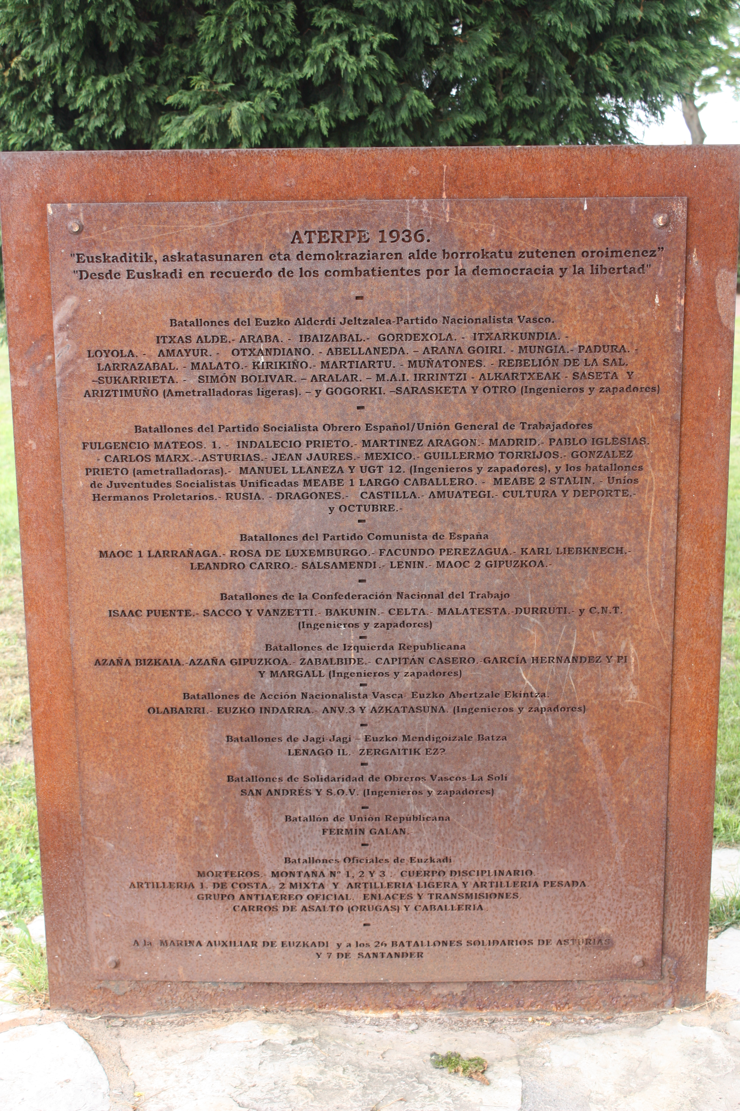 Sign at memorial, Artxanda, Bilbao, Spain, July 2010